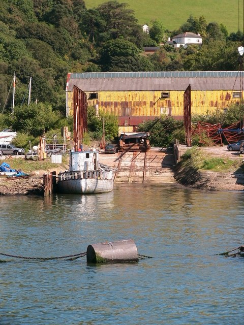 Philip & Son boatyard at Noss near Dartmouth. A view of the derelict boatyard. Its most distinguishing feature, the giant crane, has already been demolished, and remnants from it can be seen to the right of the picture.